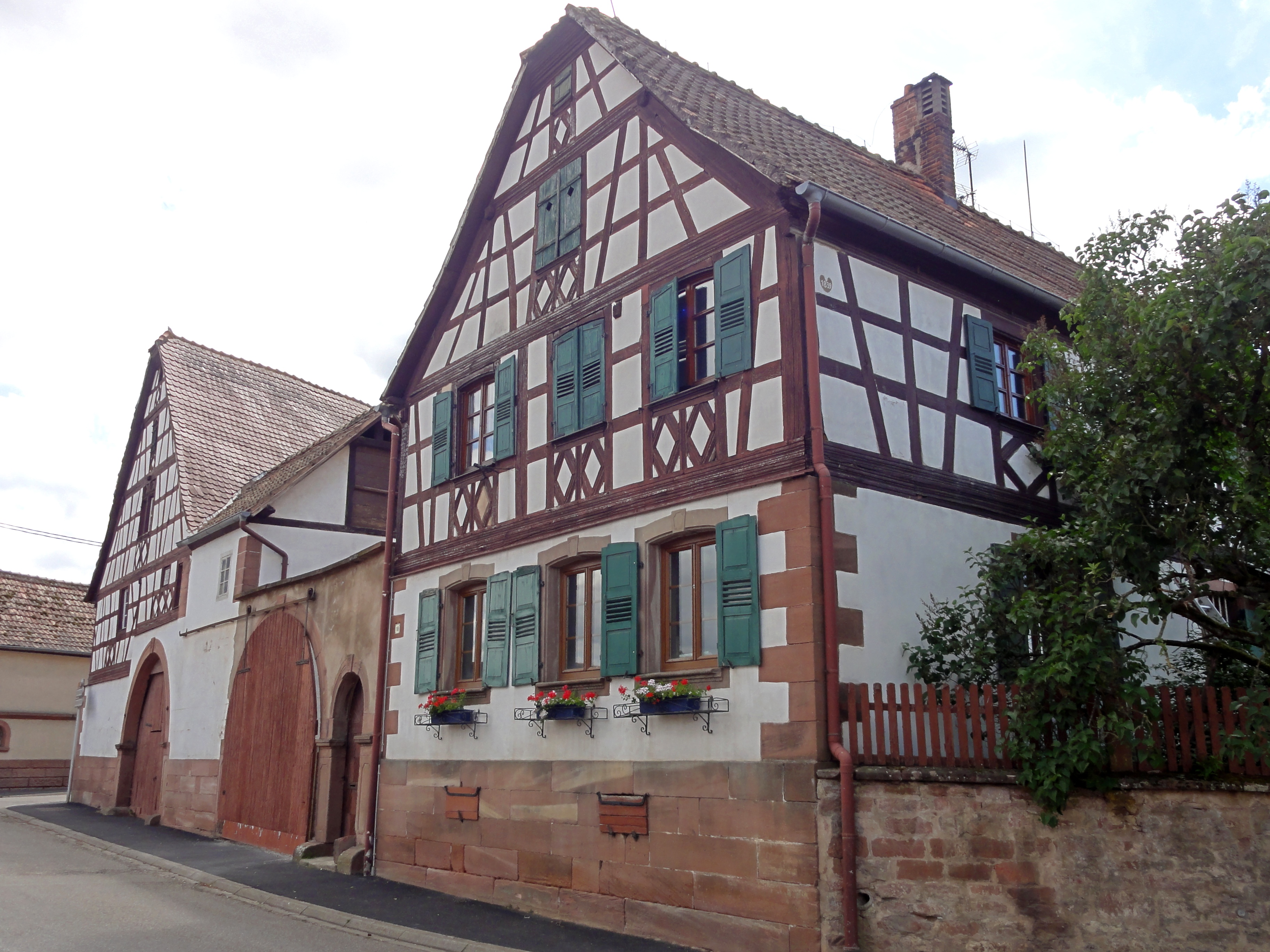 Alsace, Bas-Rhin, Buswiller, Ferme (XVIIIe-XIXe), 18 rue Principale. .